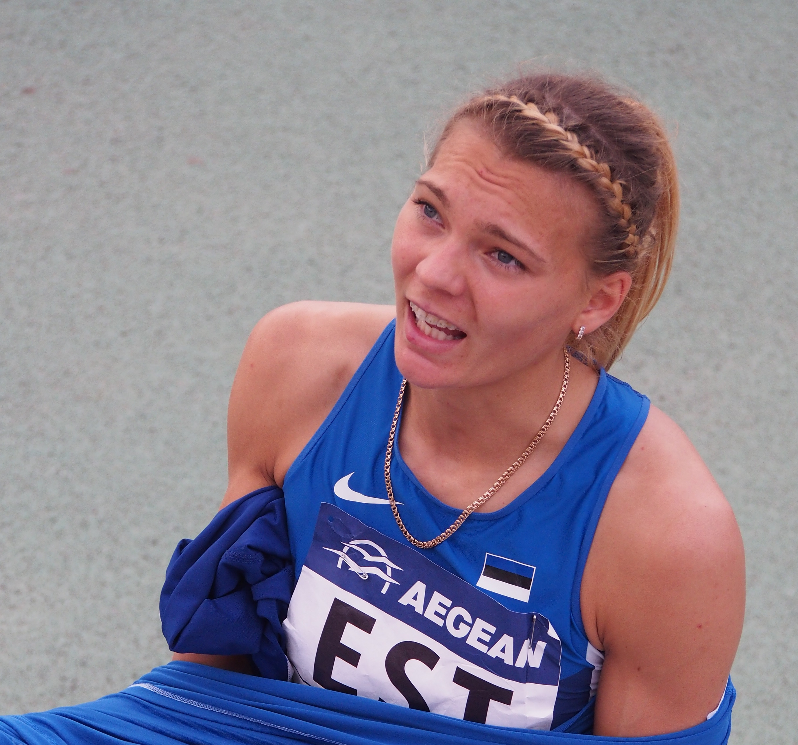 Eleriin Haas, talking with her coach during 2015 European Team Championships First League women's high jump.